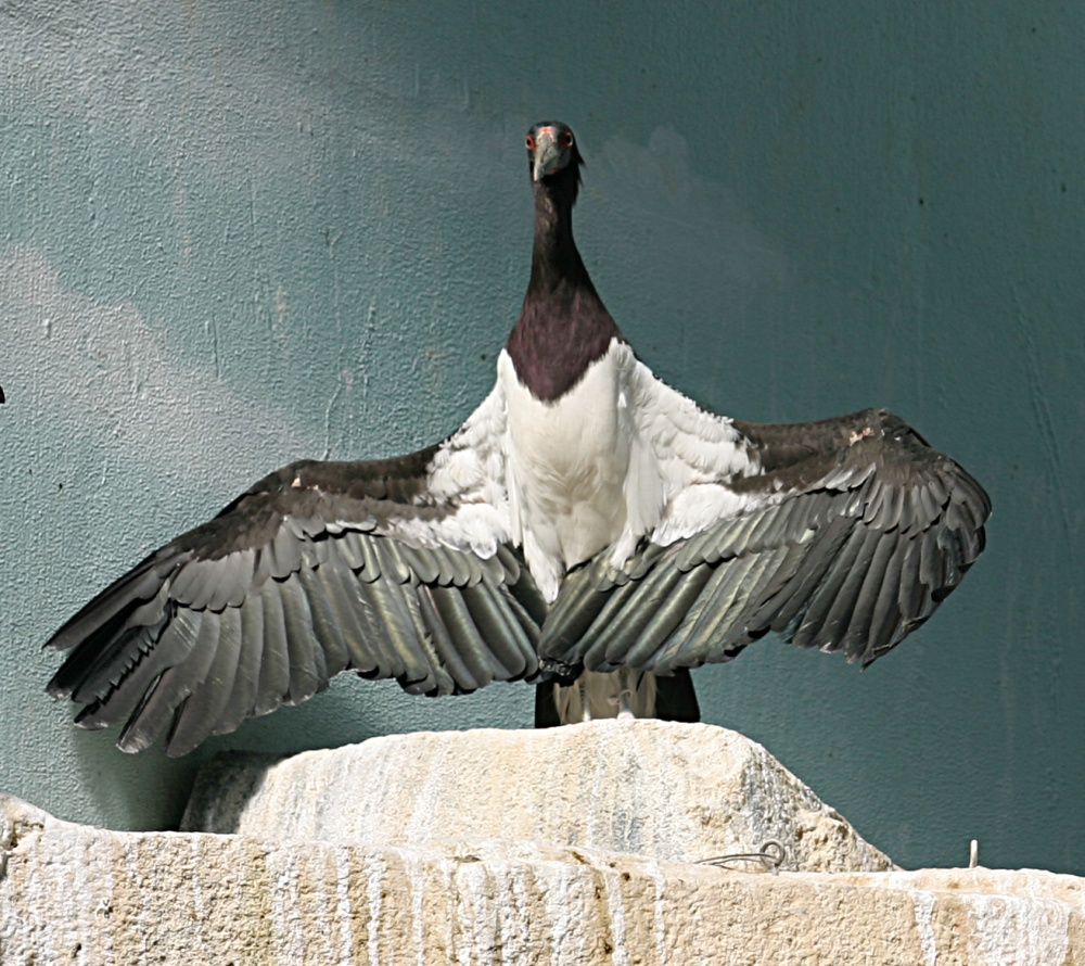 An Abdim's Stork (Ciconia abdimii) at the Milwaukee County Zoological Gardens in Milwaukee, Wisconsin